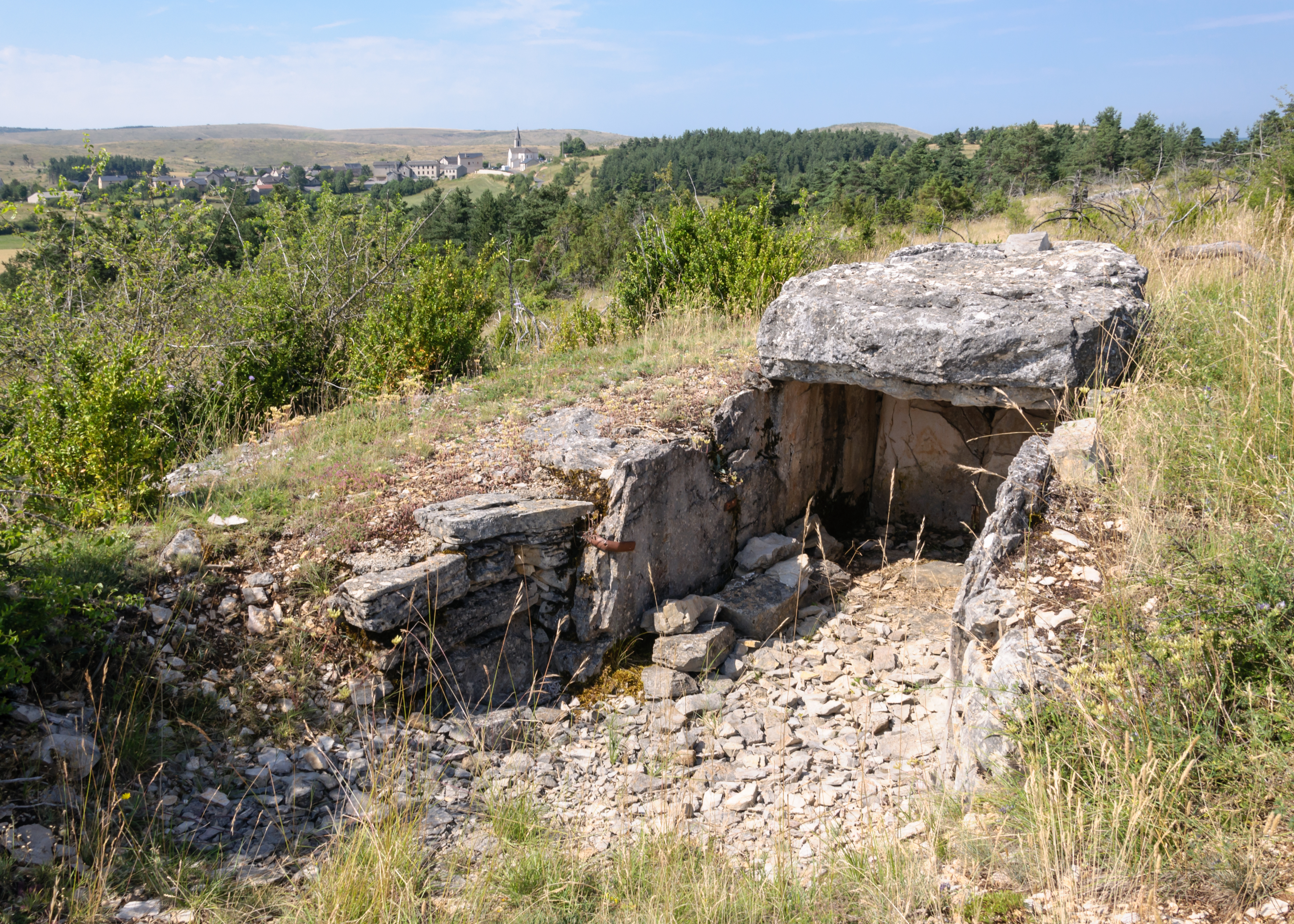 Dolmen de la Marque on Causse Méjean in Mas-Saint-Chély, Lozère, France)